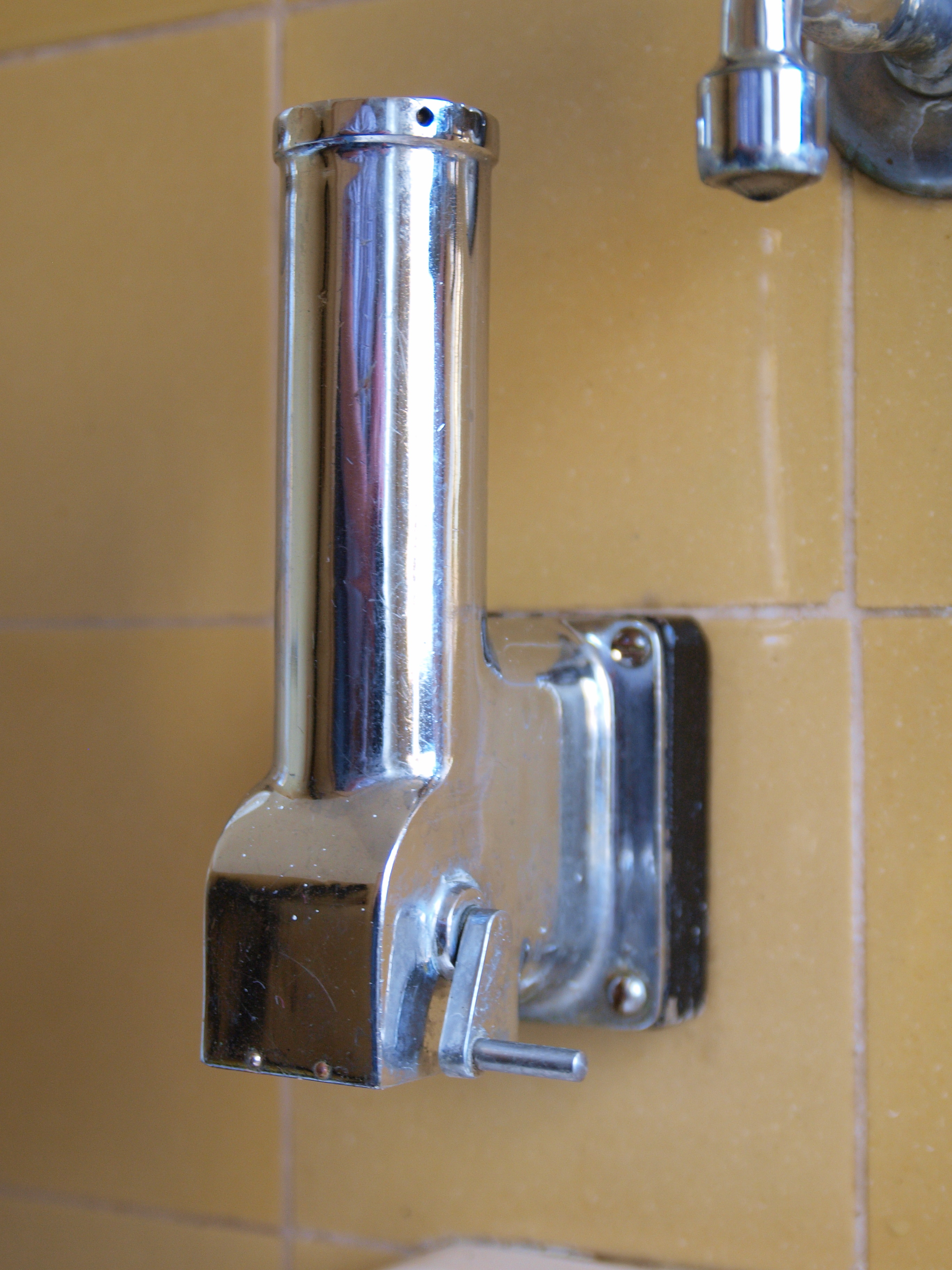 Soap dispenser, GRUNELLA® soap mill, of company Gruner, Esslingen, Germany, produced before 1972